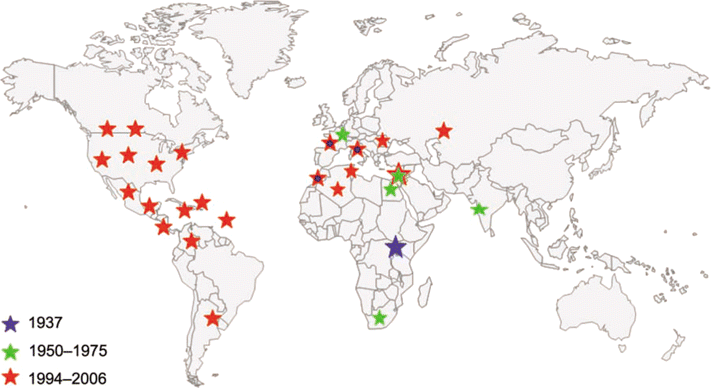 Epidemics caused by West Nile virus, 1937–2006. The red stars indicate epidemics that have occurred since 1994 that have been associated with severe and fatal neurologic disease in humans, birds, and/or equines.